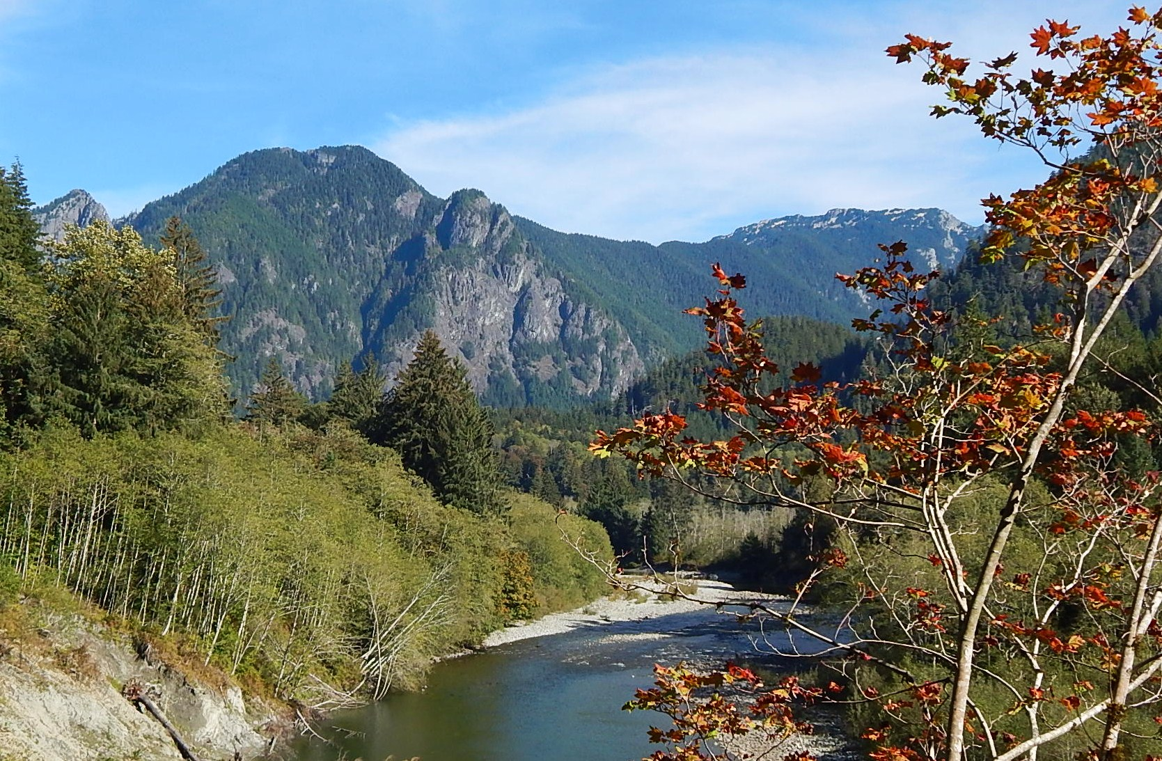 The Pulpit seen from Middle Fork Snoqualmie River Road. Washington state.